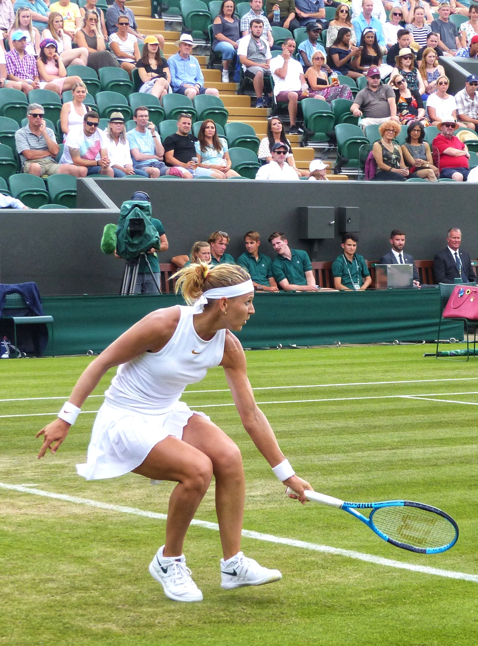 Lucie Šafářová on Court 2 at Wimbledon 2018